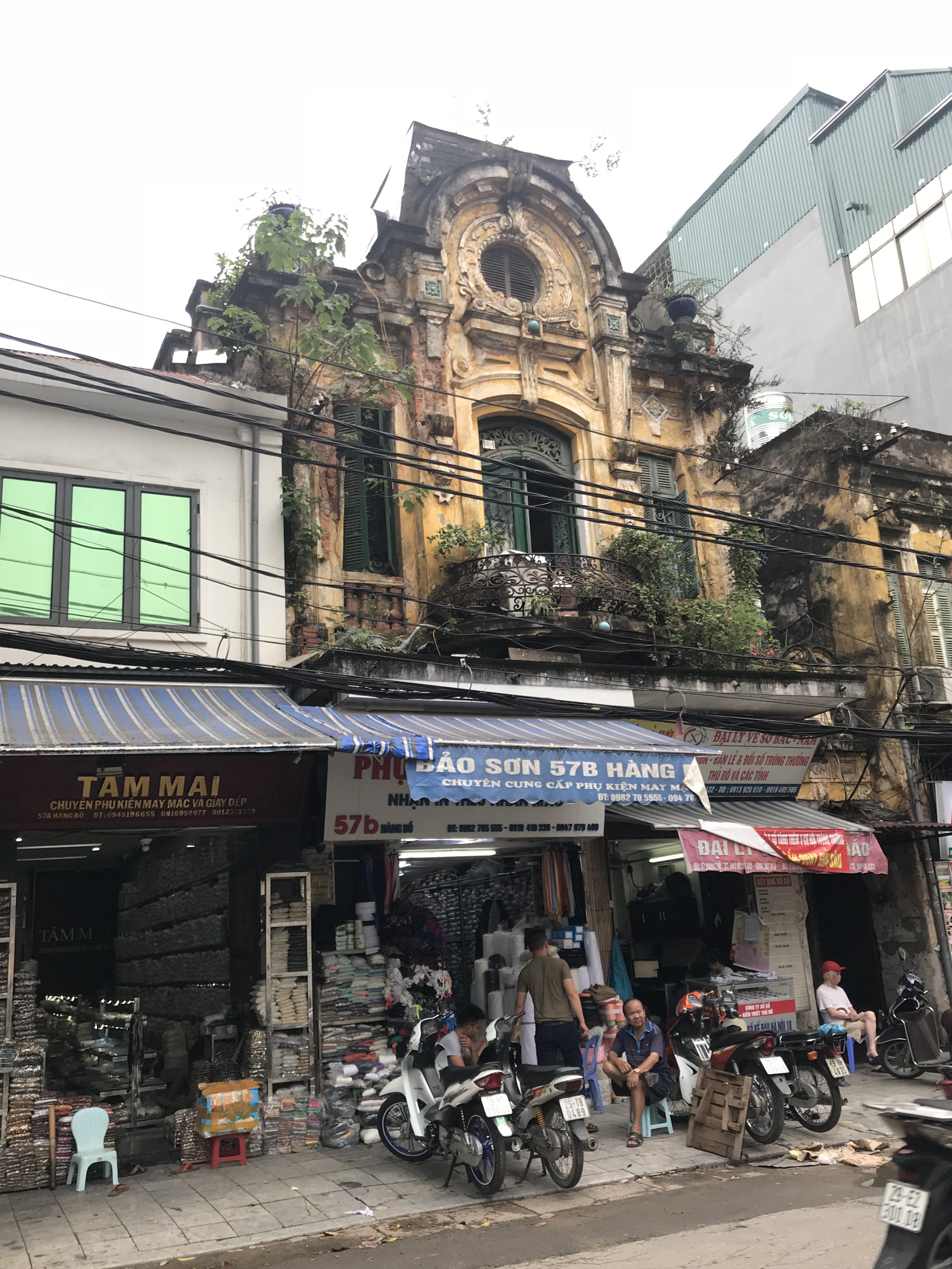 French influenced architecture shophouse in Hanoi